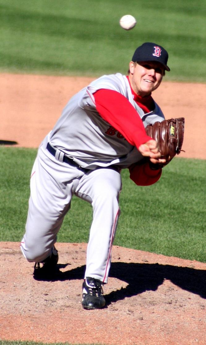 Jonathan Papelbon of the Boston Red Sox delivers a pitch.